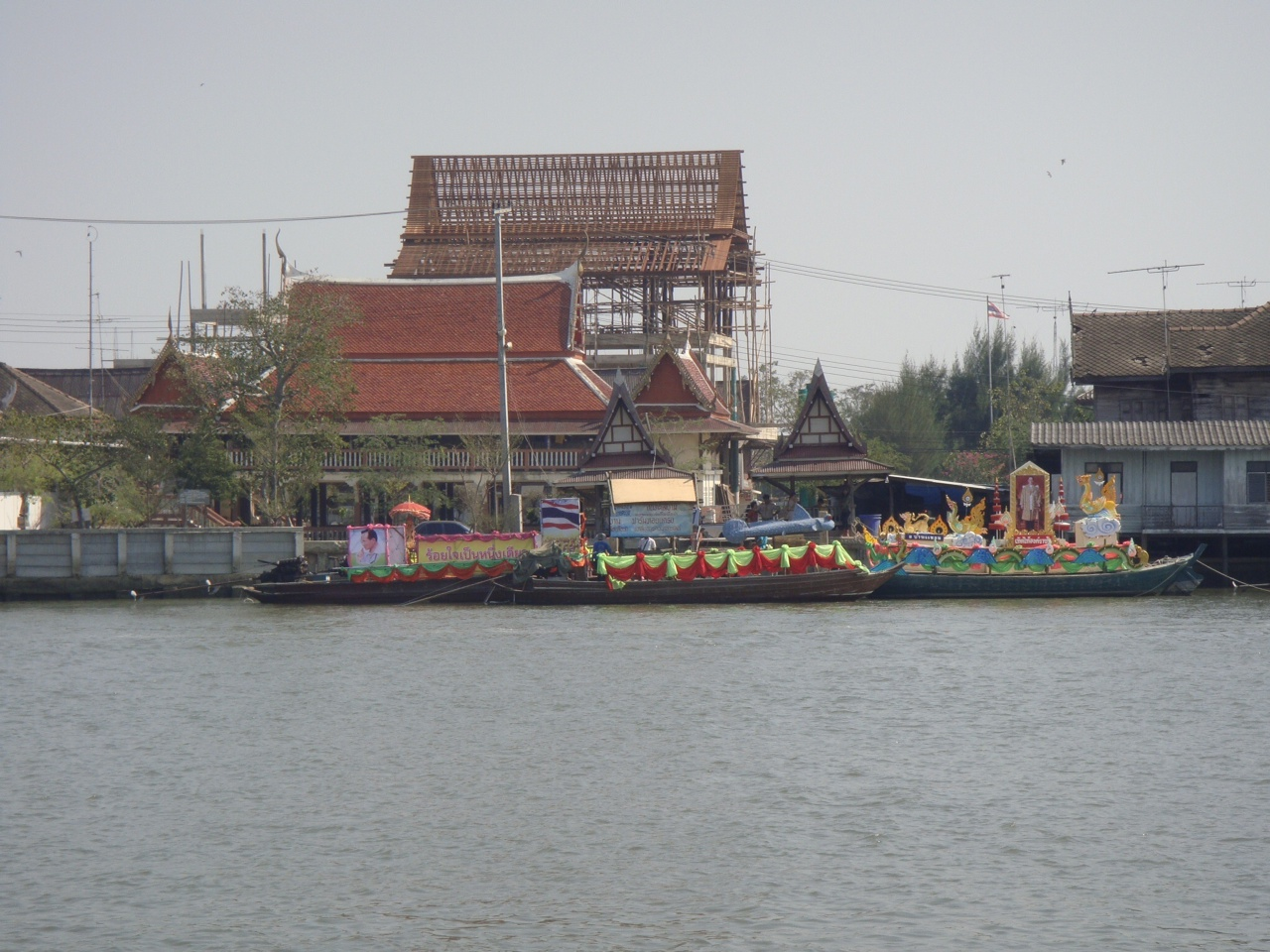 บริเวณวัดปากอ่าวบางตะบูน